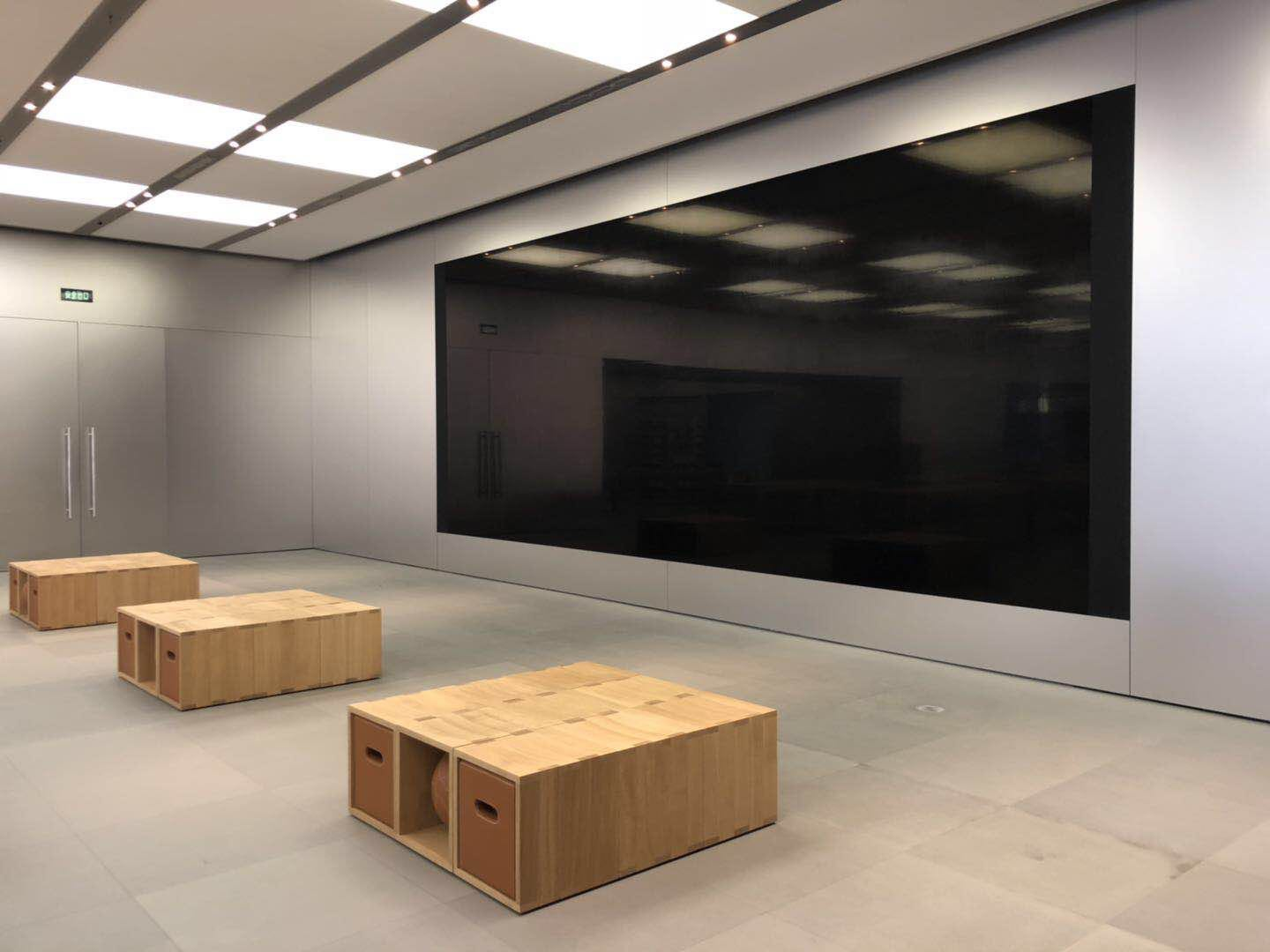 中文（中国大陆）: Apple 深圳益田假日广场升级后配备 The Forum 和 Video Wall 元素